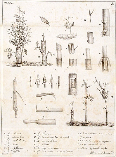 Illustration from a publication about gardening techniques, by André Thouin (1747-1824)